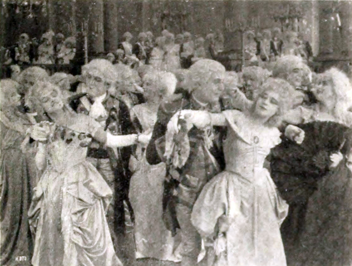 Illustration of an article in The Moving Picture World